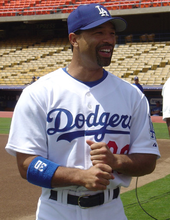 dave roberts, destroyer of the curse of the bambino